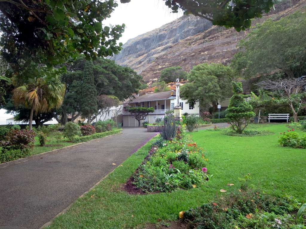 The Castle Gardens off Grand Parade in downtown Jamestown, St Helena Island, provide a welcome place to relax.